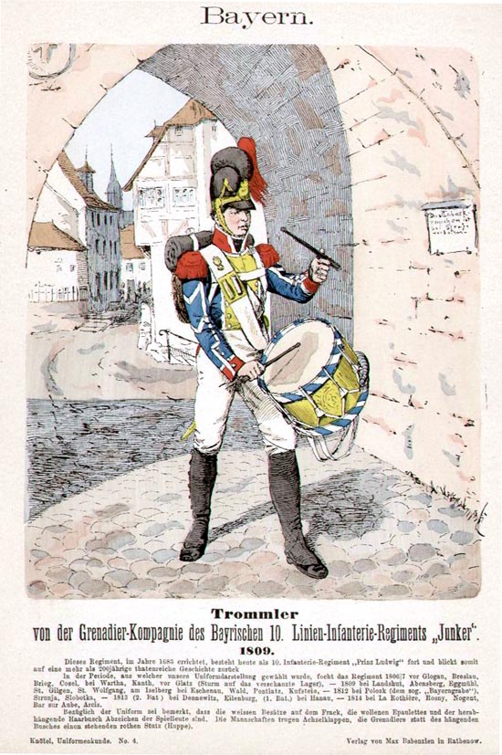 Bayern. Grenadier-Tambour von Regiment Junker. 1809.